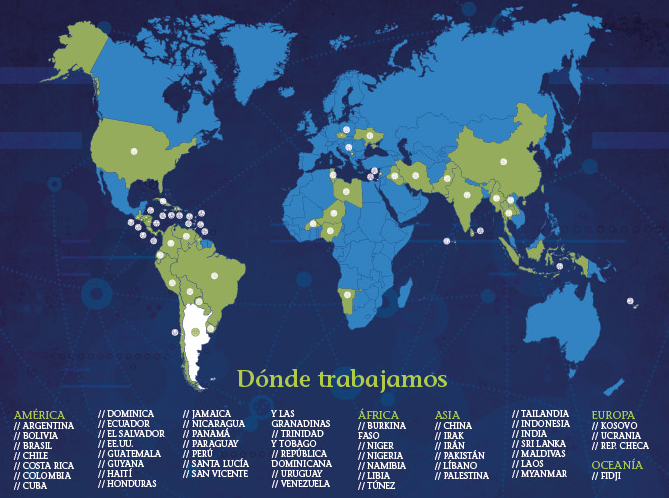 White Helmets. Where we work map